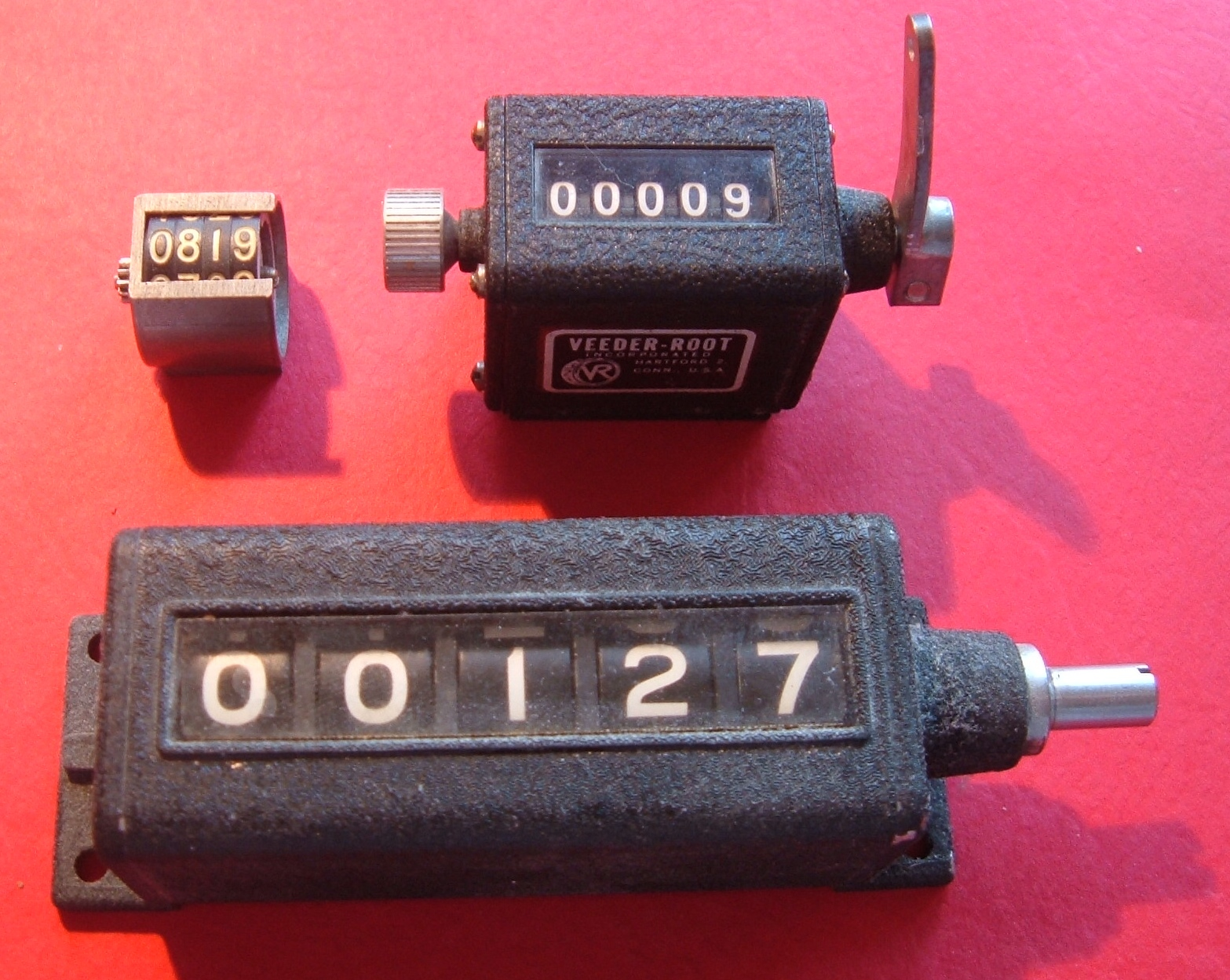 Three mechanical counters.